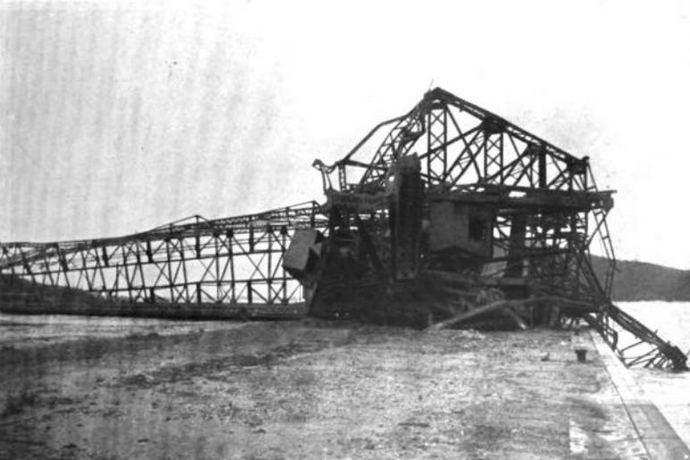 A downed coal crane in the Virgin Islands, once operated by the West Indian Company, following the 1916 hurricane.